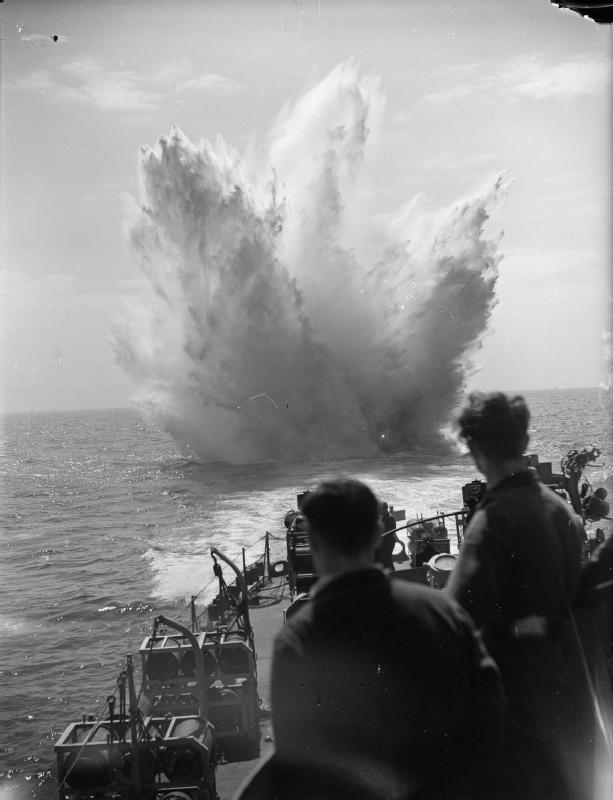 The Royal Navy during the Second World War- Operation Overlord (the Normandy Landings), June 1944 HMS HOLMES drops a depth charge on a suspected U-boat during the landing operations on the Normandy coast.